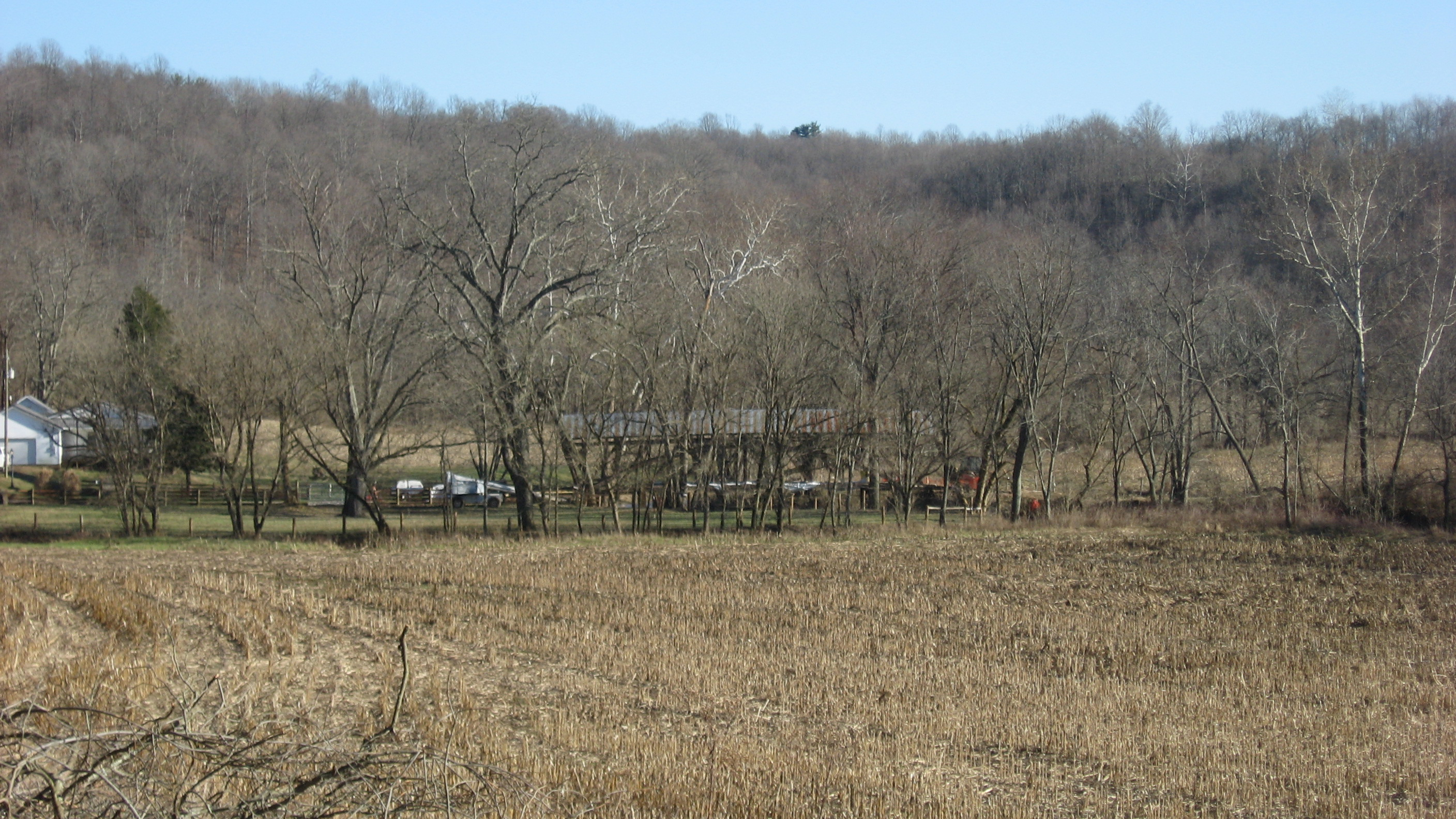 Distant view from the west of the Barkhurst Mill Covered Bridge, located at the end of a dead-end road northeast of Chesterhill in Marion Township, Morgan County, Ohio, United States. Built in 1872, it is listed on the National Register of Historic Places. A closer photo was not legally possible, as the bridge is situated on private property; see File:B&S Hunt Club sign.jpg, taken from the same spot.